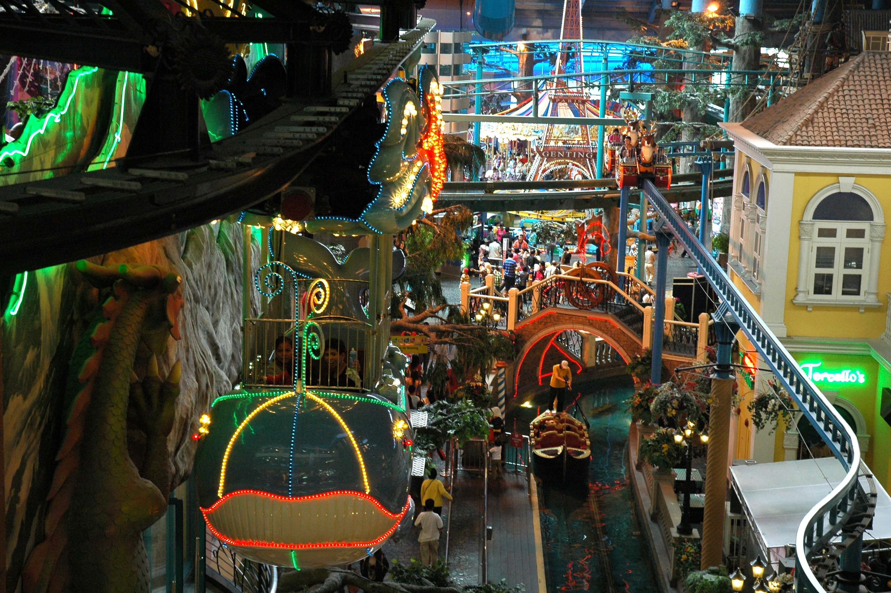 The surreal indoor theme park/shopping mall of First World Plaza, Genting Highlands.